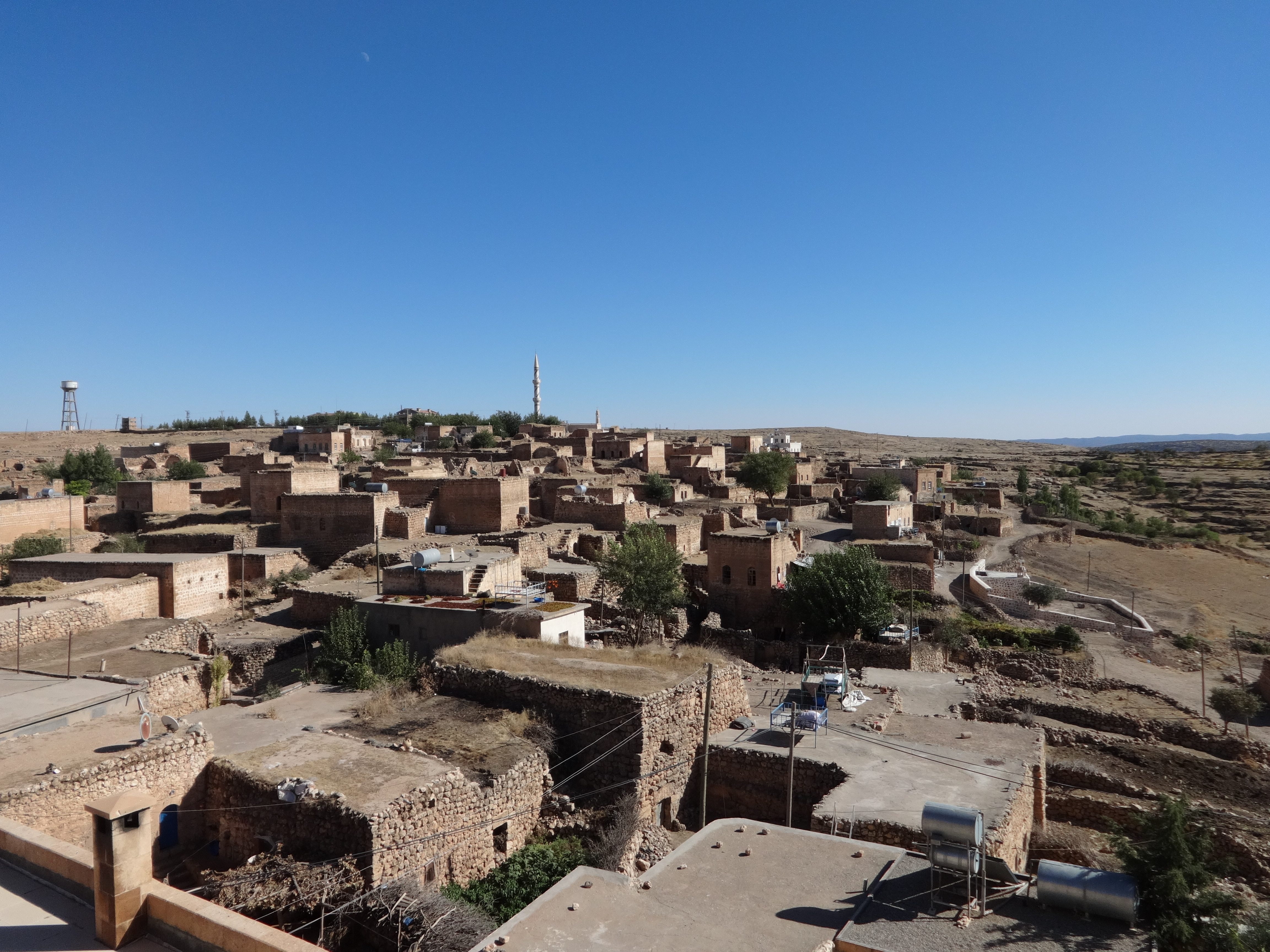 from the roof of the main church: view over Keferze